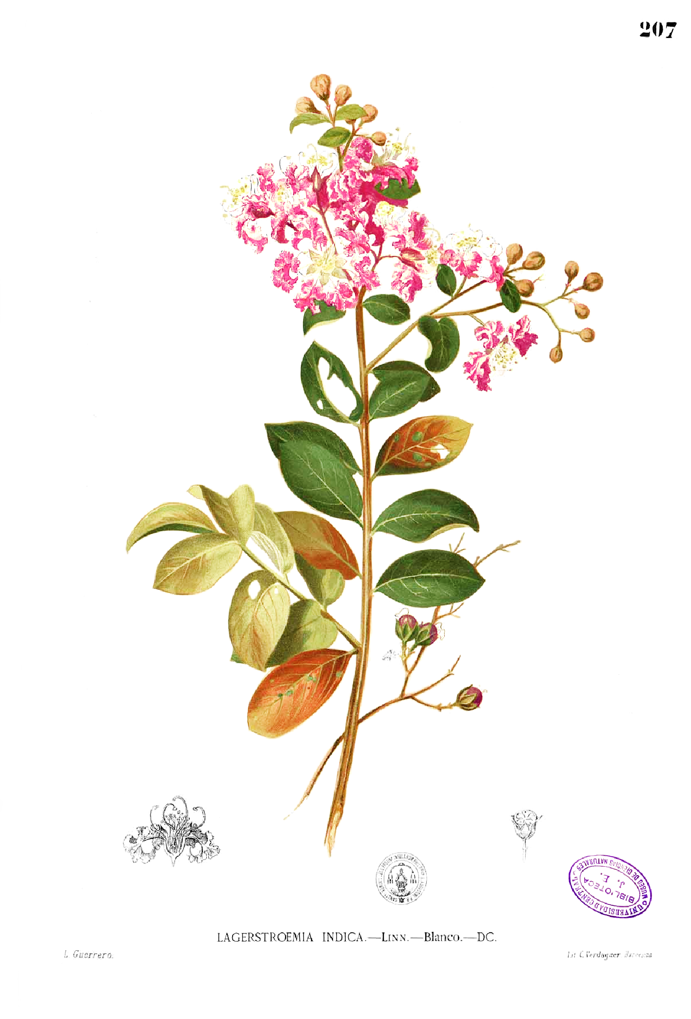 Lagerstroemia indica Plate from book